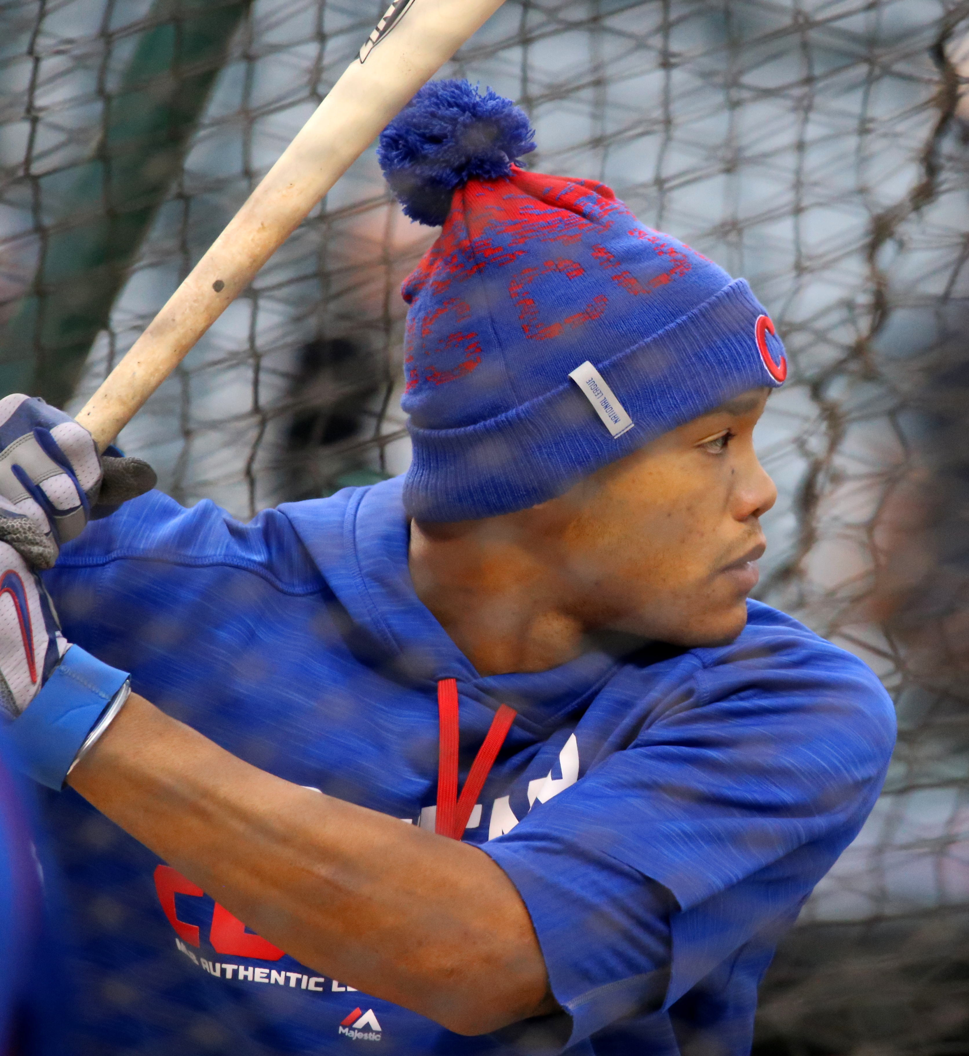 Cubs shortstop Addison Russell takes batting practice on #WorldSeries Media Day at Progressive Field.